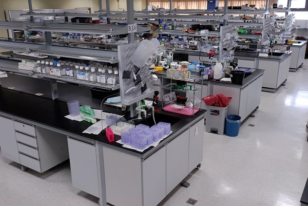 The Laboratory is Graduate Institute of Cancer Biology of China Medical University.